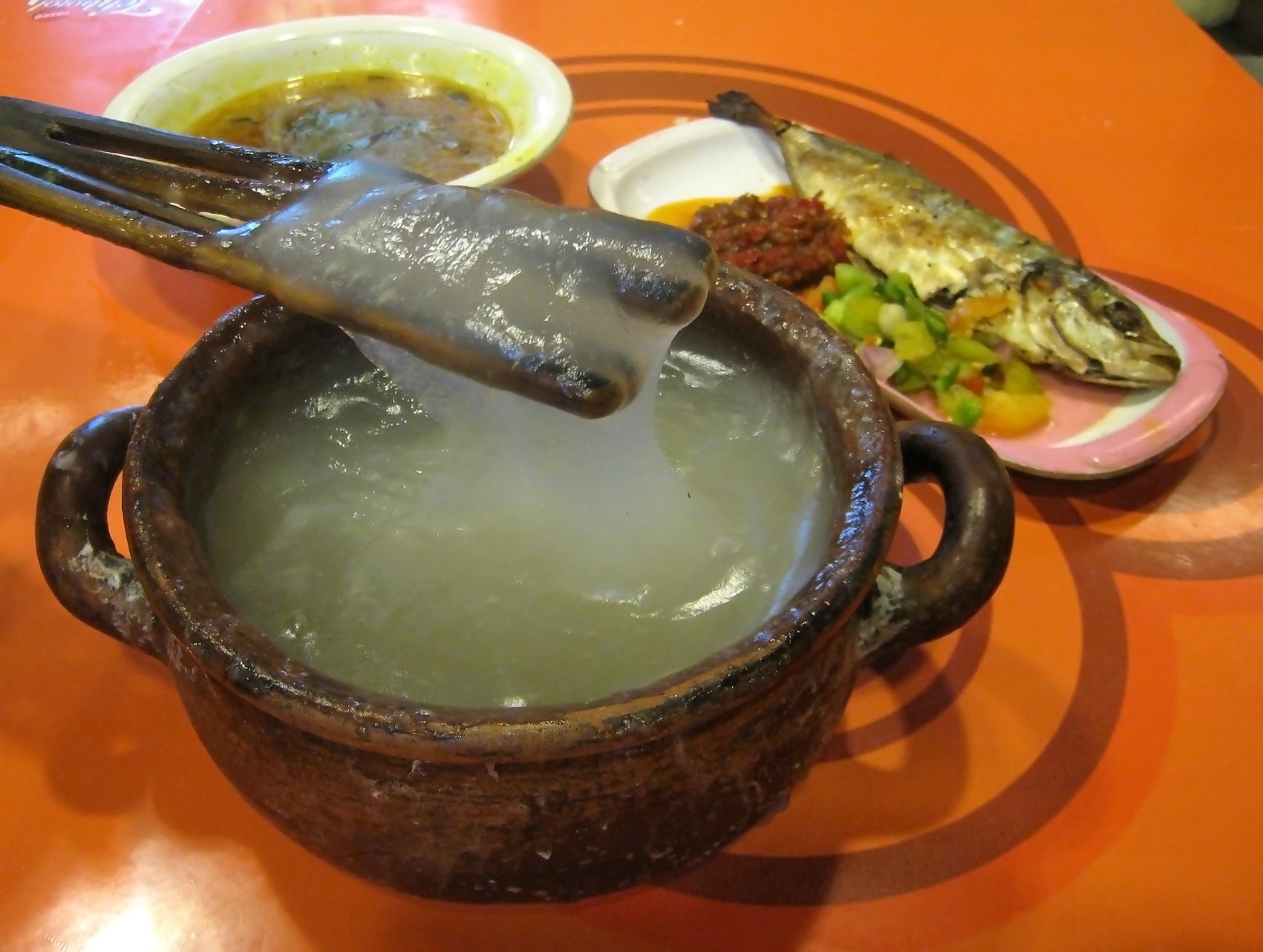 Papeda (sago congee), Kuah Kuning (yelow soup) and Ikan Tude Bakar (grilled fish) with Dabu-dabu and Rica sambal. The Eastern Indonesian meal; Papeda, the staple food of Eastern Indonesia have a glue-like consistency and texture. Served in Waroeng Ikan Bakar, a restaurant specializing in Eastern Indonesian food (Manado, Maluku and Papuan cuisine). Atrium Senen Foodcourt, Jakarta, Indonesia.